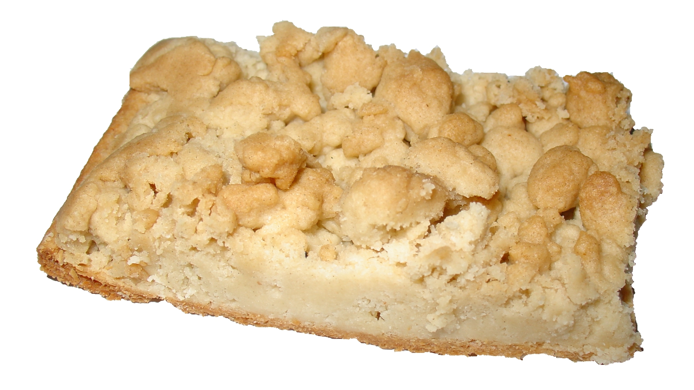 Spanish "coca de mollitas" dessert.